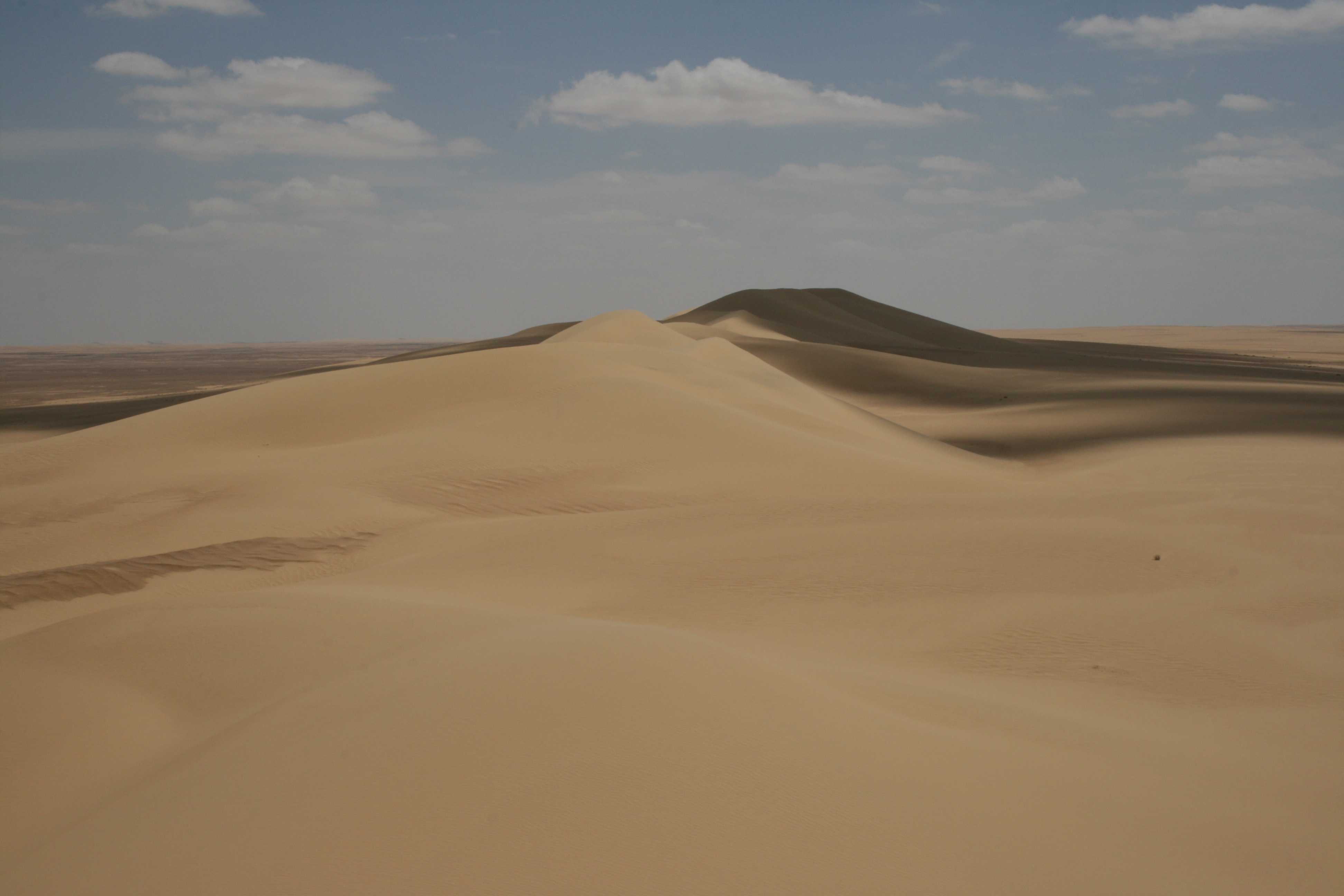 A majestic view of sand dunes in the Qattara Depression which is almost impassible to motorized vehicles.